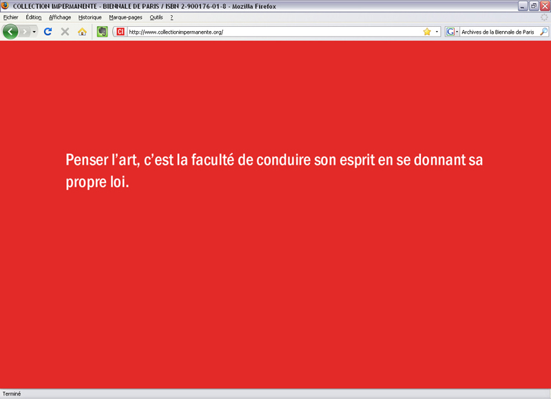 Collection Impermanente - Capture